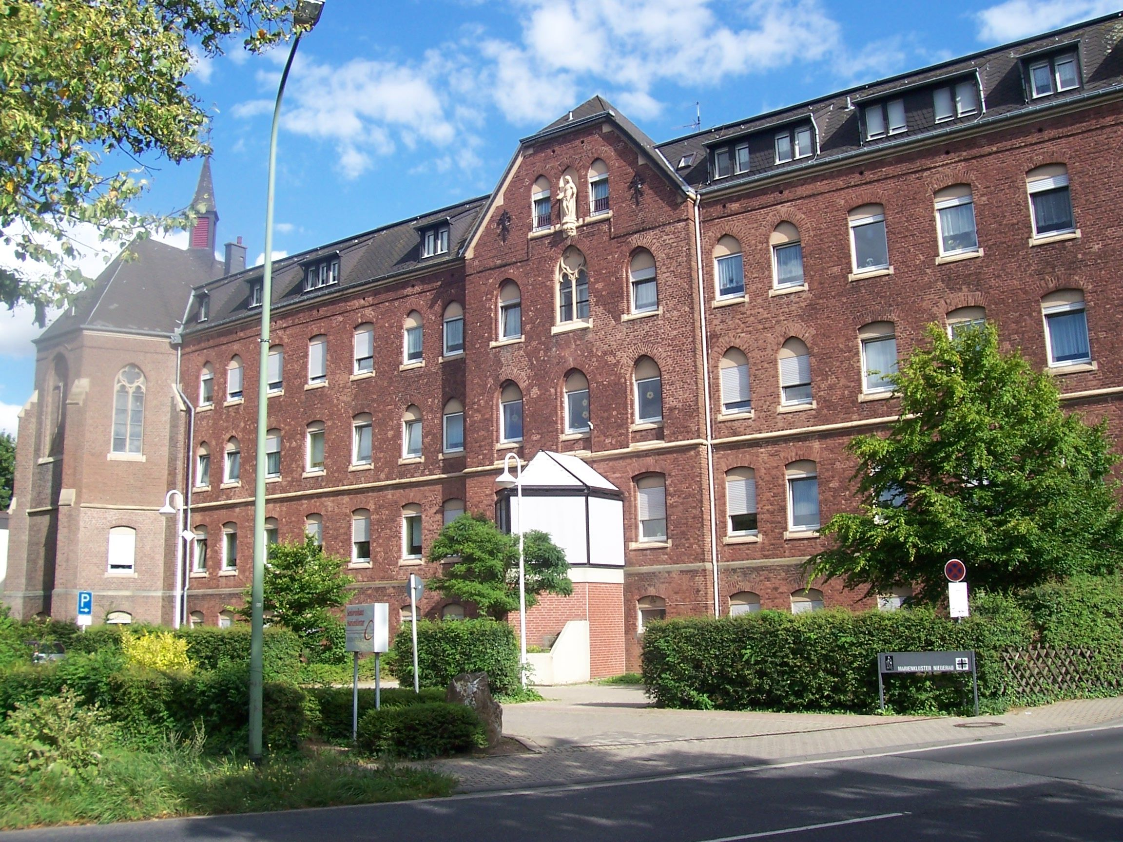 the Marienkloster in Düren-Niederau